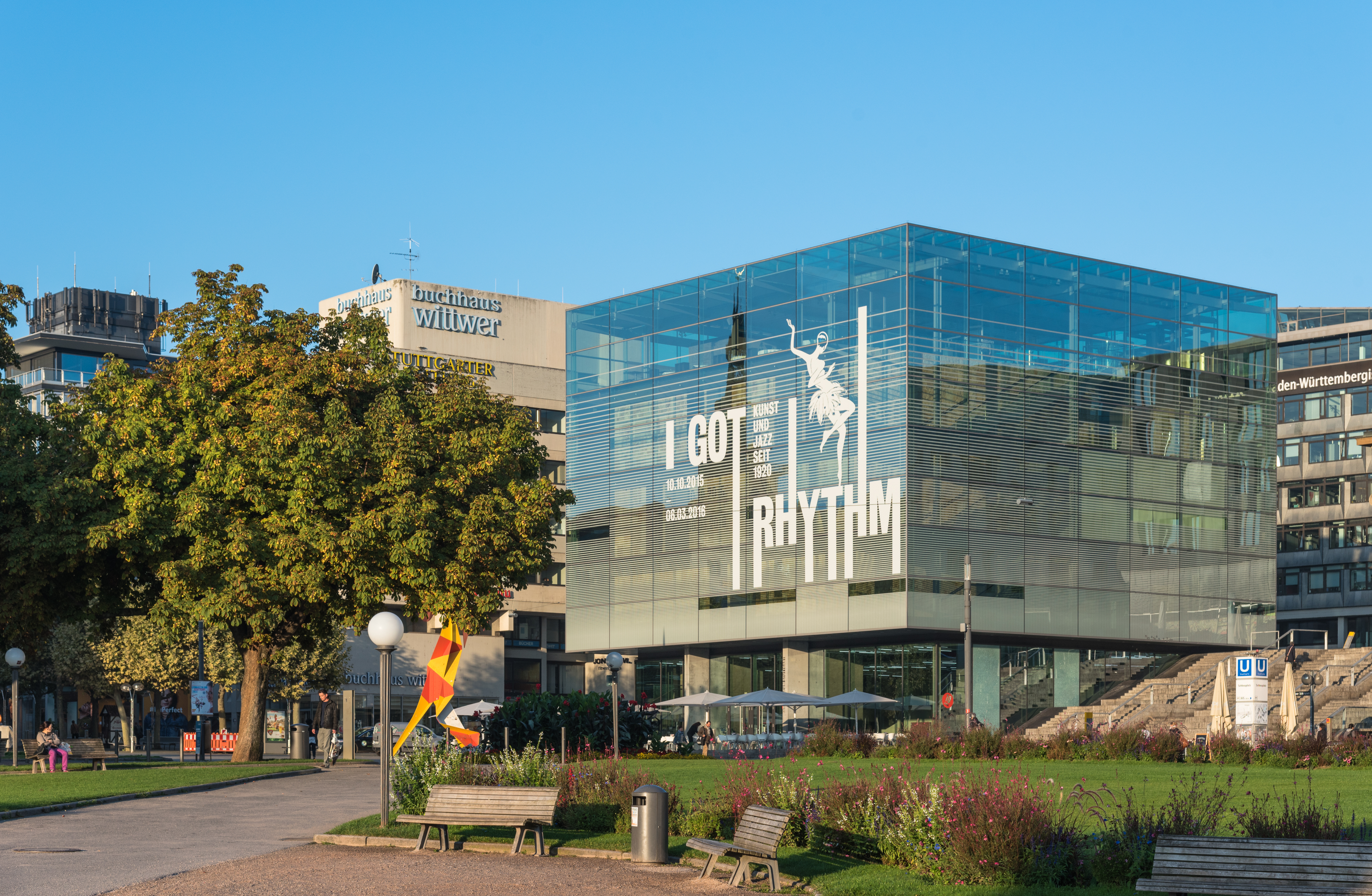 Kunstmuseum Stuttgart (comtemporary/modern art museum) (Schlossplatz, Stuttgart, Germany).